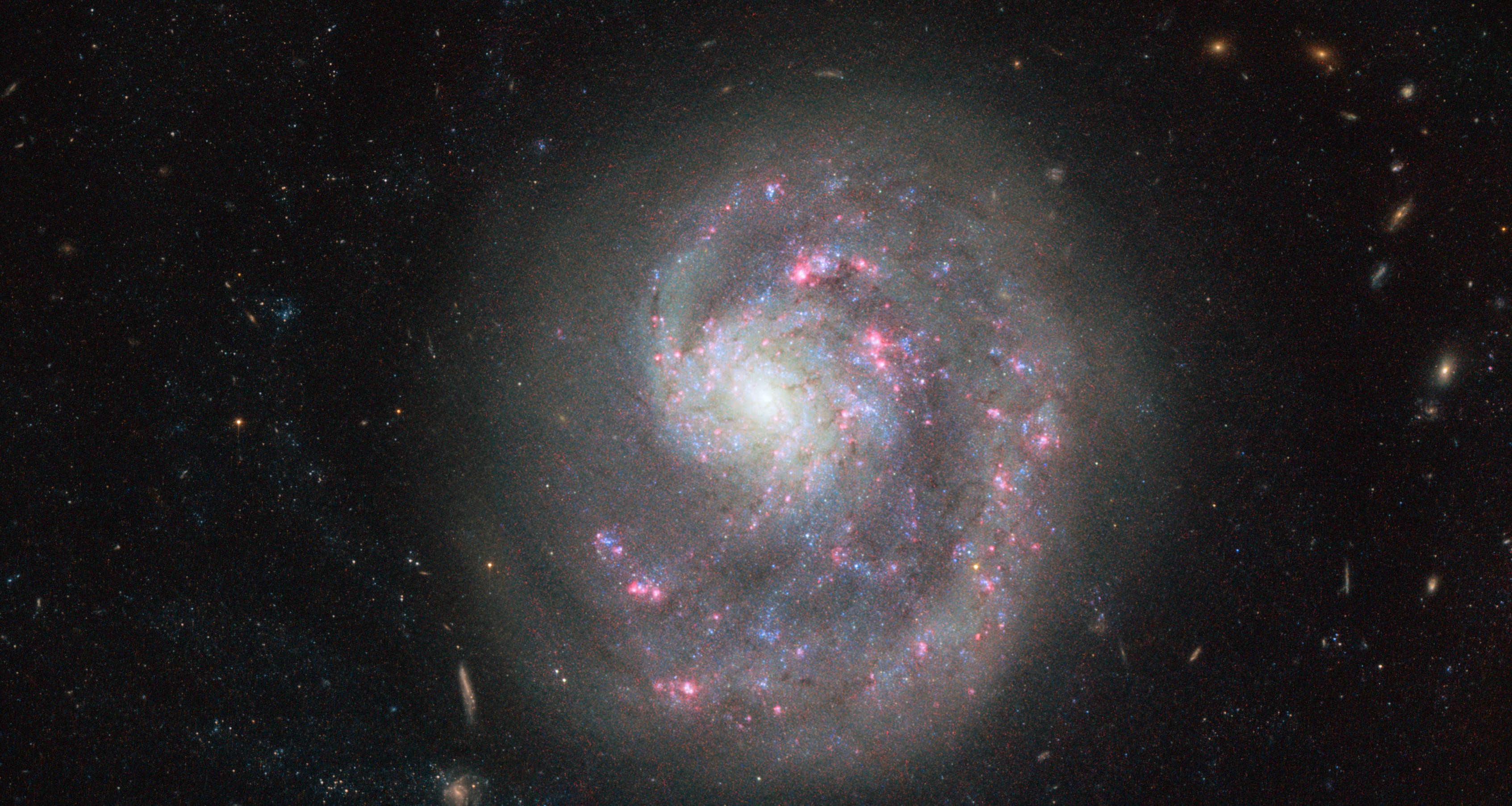 This new Picture of the Week, taken by the NASA/ESA Hubble Space Telescope, shows the dwarf galaxy NGC 4625, located about 30 million light-years away in the constellation of Canes Venatici (The Hunting Dogs). The image, acquired with the Advanced Camera for Surveys (ACS), reveals the single spiral arm of the galaxy, which gives it an asymmetric appearance. But why is there only one spiral arm, when spiral galaxies normally have at least two? Astronomers looked at NGC 4625 in different wavelengths in the hope of solving this cosmic mystery. Observations in the ultraviolet provided the first hint: in ultraviolet light the disc of the galaxy appears four times larger than on the image depicted here. An indication that there are a large number of very young and hot — hence mainly visible in the ultraviolet — stars forming in the outer regions of the galaxy. These young stars are only around one billion years old, about 10 times younger than the stars seen in the optical centre. At first astronomers assumed that this high star formation rate was being triggered by the interaction with another, nearby dwarf galaxy called NGC 4618. They speculated that NGC 4618 may be the culprit “harassing” NGC 4625, causing it to lose all but one spiral arm. In 2004 astronomers found proof for this claim: The gas in the outermost regions of the dwarf galaxy NGC 4618 has been strongly affected by NGC 4625.